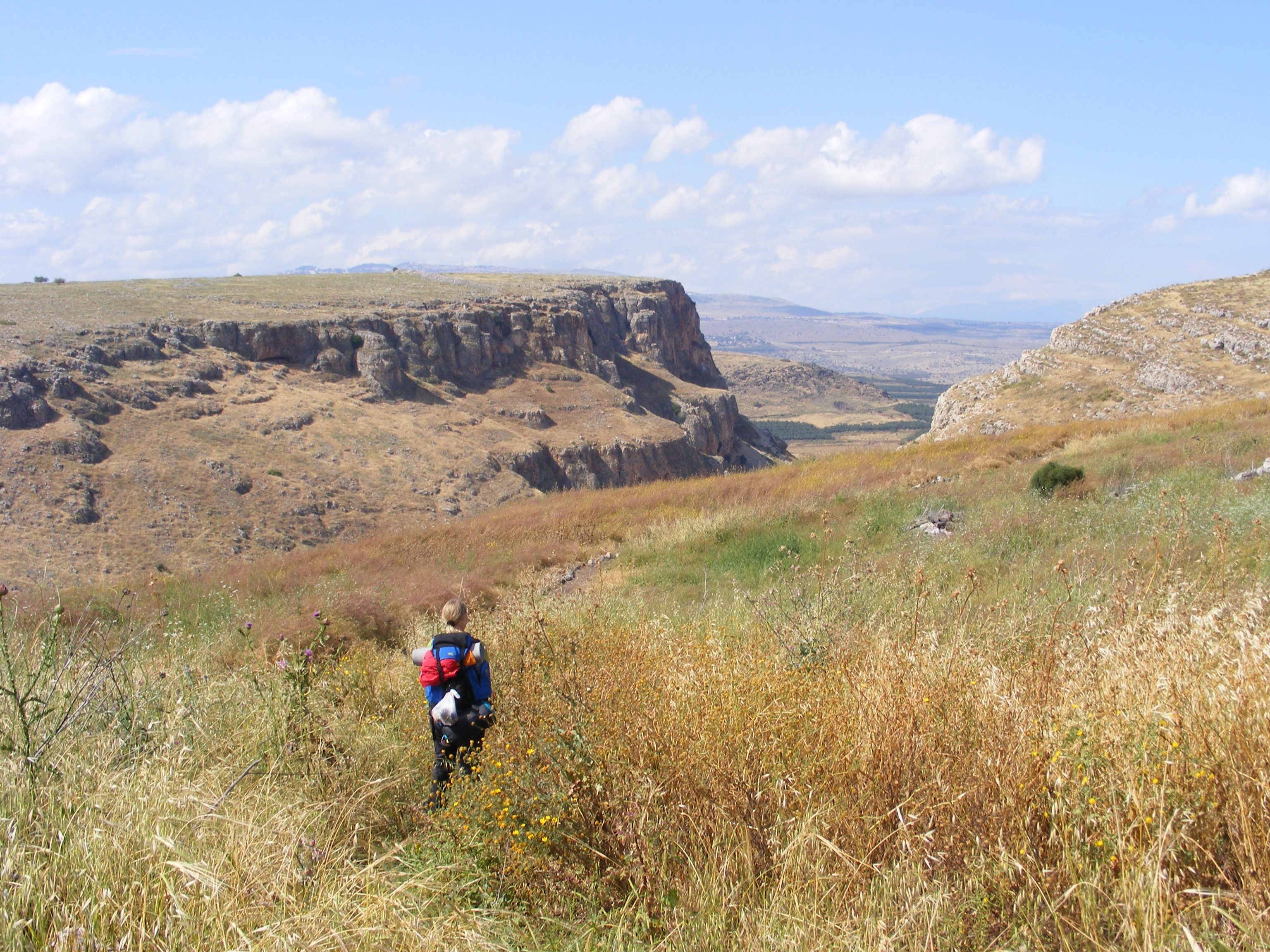 In May 2011 on the footpath between Arbel and Mount Arbel, near the ancient Synagogue